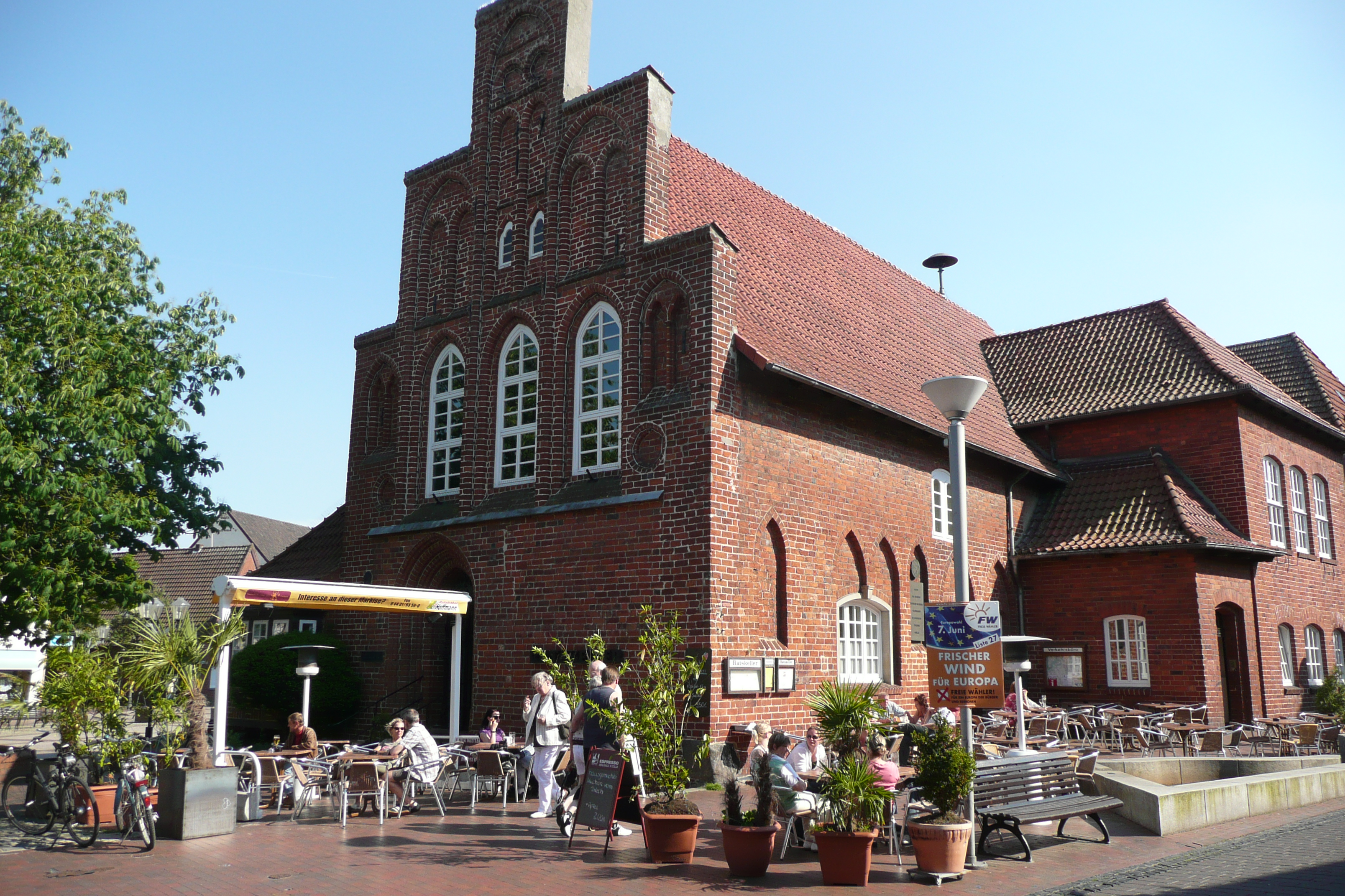 Old town hall in Wildeshausen